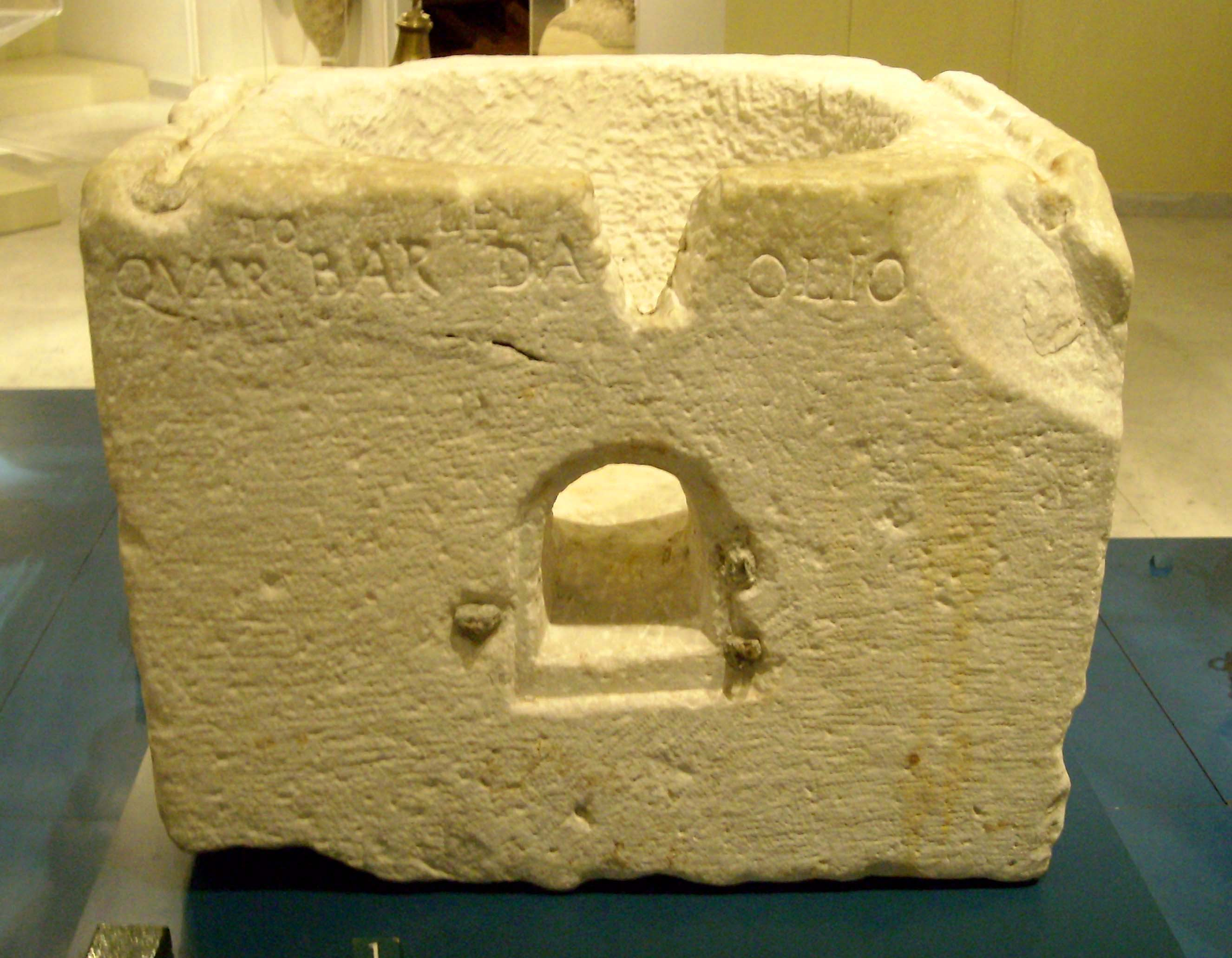 Ancient mesure in marble of olives oil in the province of Imperia, Liguria, Italy.